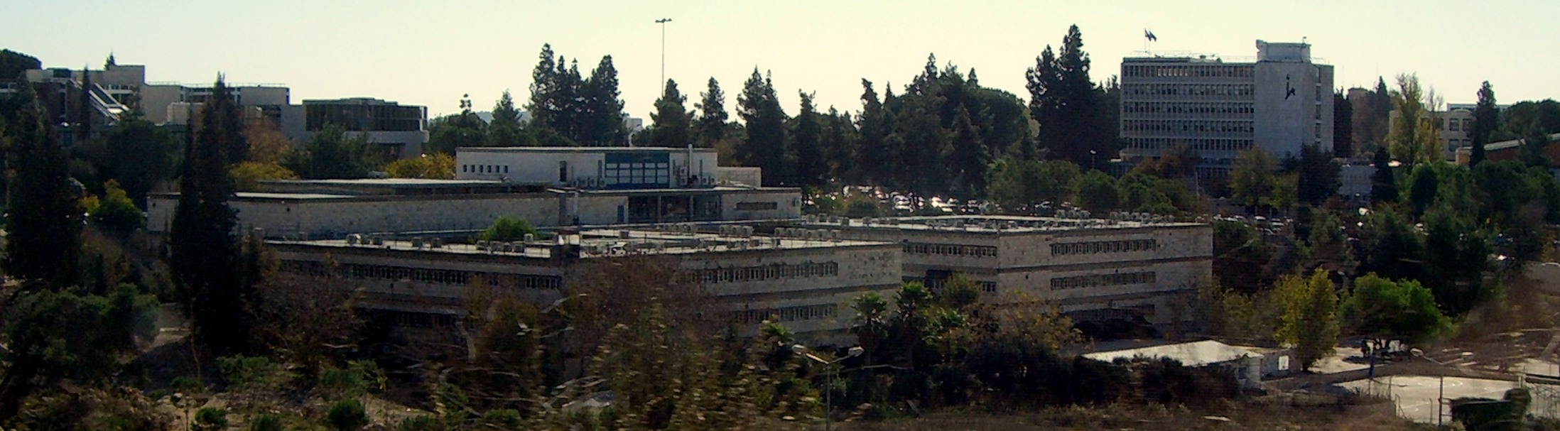 The Hebrew University High School, commonly known as Leyada, as viewed from the north. I, User:OwenX, photographed this on 4 December 2006 in Jerusalem, Israel, using a Casio Exilim EX-S600 digital camera. I am hereby licensing this image to the Wikimedia Foundation in perpetuity under the terms of GFDL.